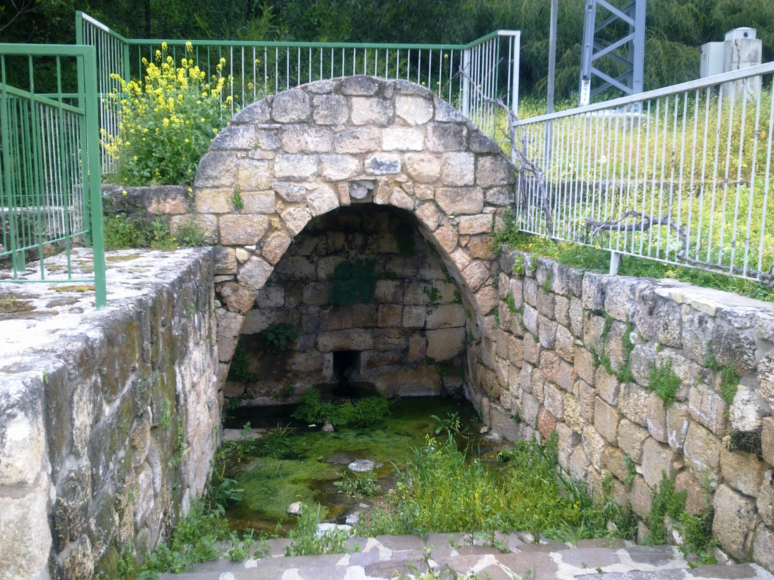 ein eilabun עין עילבון